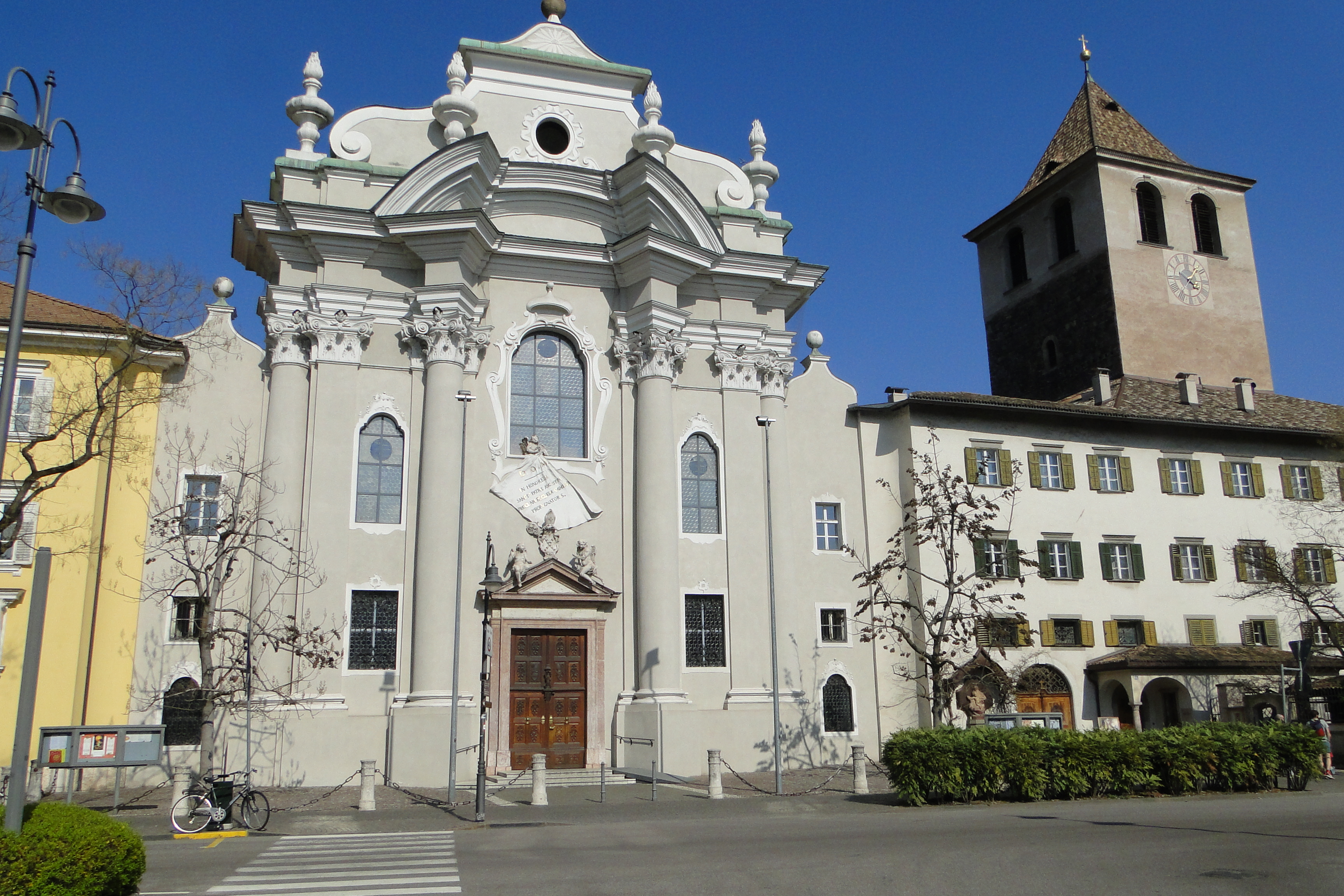 Church of Saint Augustin: façade and kloster aside